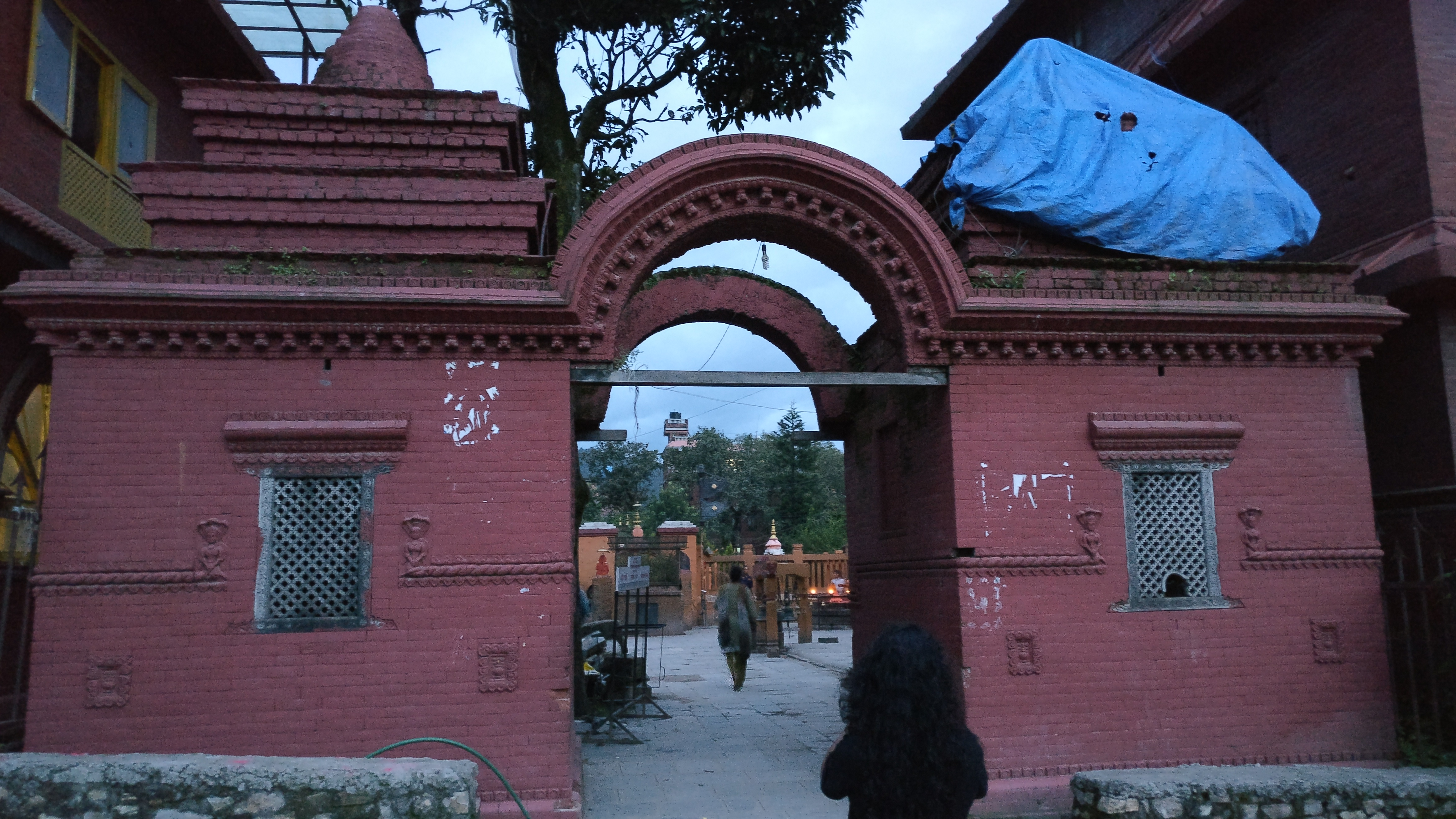 Budhanilkantha Temple Entrance visible from the street